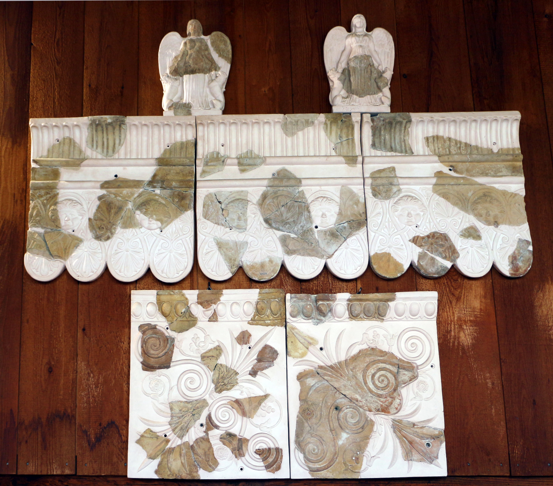 Museo archeologico nazionale (Cosa)